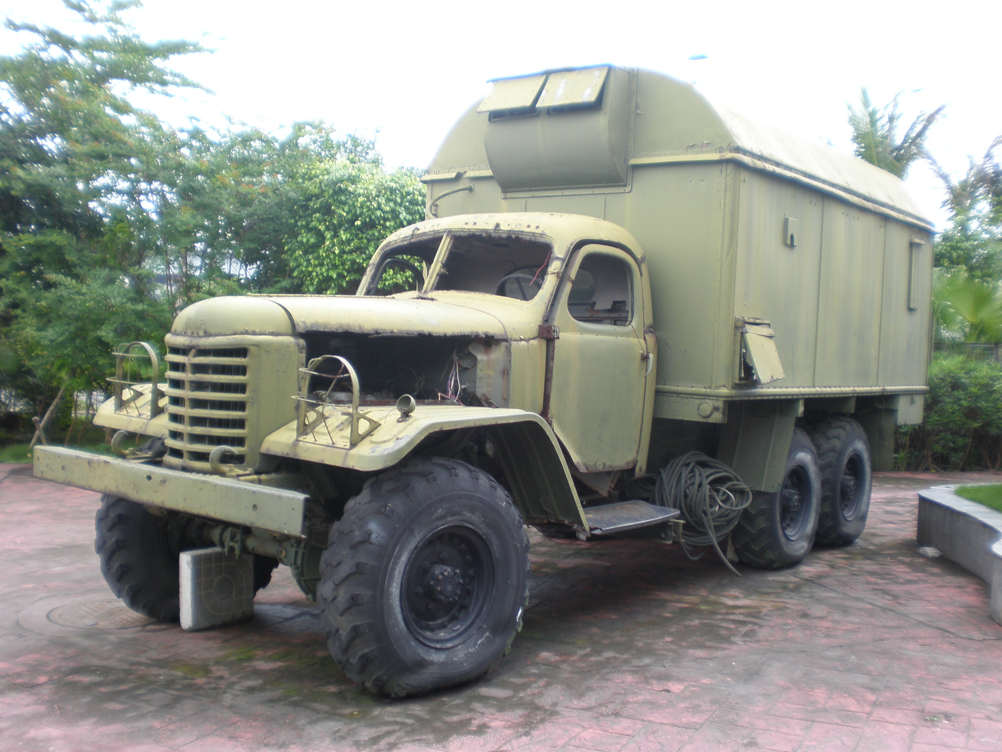 The towing and command vehicle of a radar truck on display at the Minsk World theme park in Shenzhen, PRC. See Image:Radar truck MW 2.JPG.